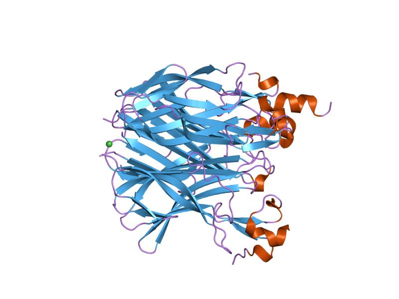 Cartoon representation of the molecular structure of protein registered with 1xu1 code.